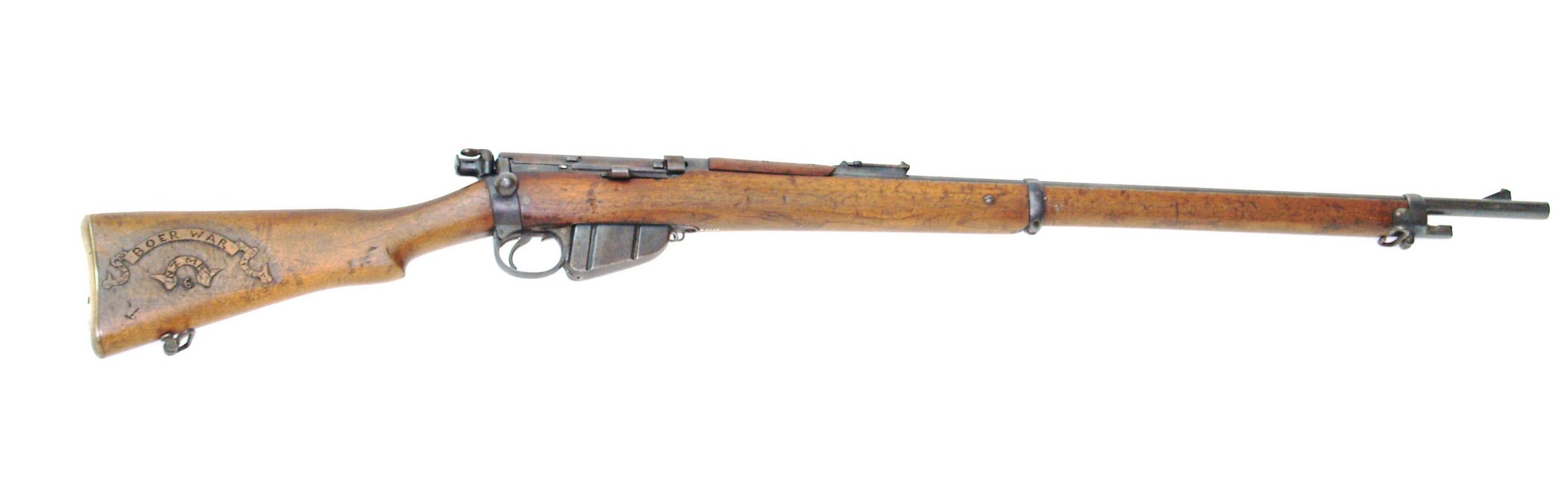 British Lee Enfield Mk Ix rifle (Long Tom), Anglo Boer War Probably belonged to and carved by Lance-Corporal Alfred Samuel Clark, 16th Coy, NZMR rifle- bolt action; .303 inch calibre; comes with magazine and original leather sling; carved butt carving- side 1- soldier on horseback side 2- 1900-1902 - SOUTH AFRICA - BOER WAR - NZMR 6 markings- proof and view marks; Military Acceptance marks; War Department marks (under top wood) maker's details and date- SPARKBROOK 1900 serial number 66575 on body and bolt reign and model- VR and LE Ix; WW2 Home Guard issue- 1 - HG - 1164 maker- Royal Small Arms Factory, Sparkbrook; circa 1900 missing parts- rear valley sight missing; front V.S. groove missing; sling missing (1995)